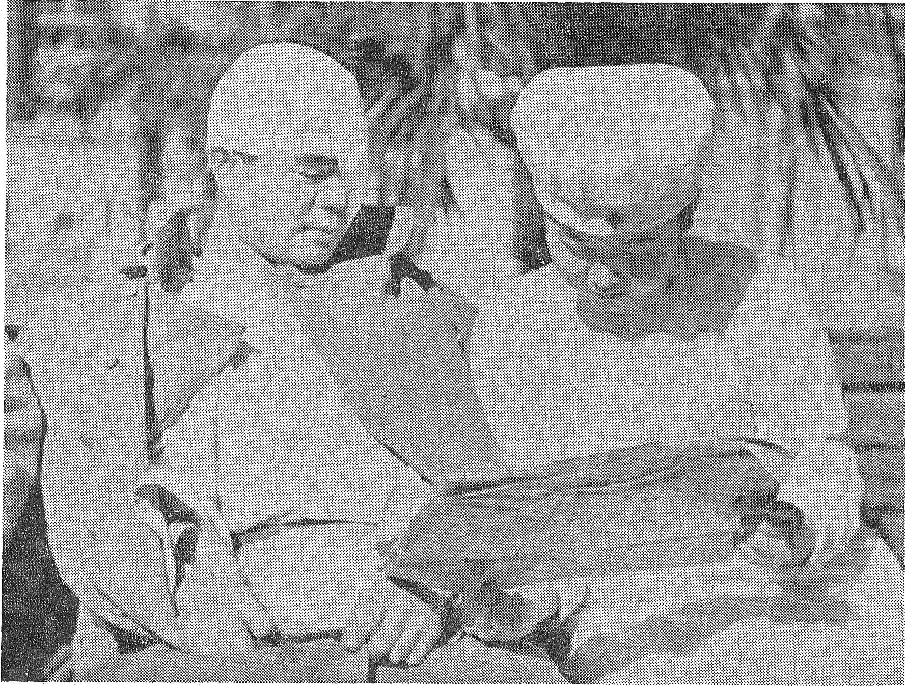 Nurse cheering up injury soldiers